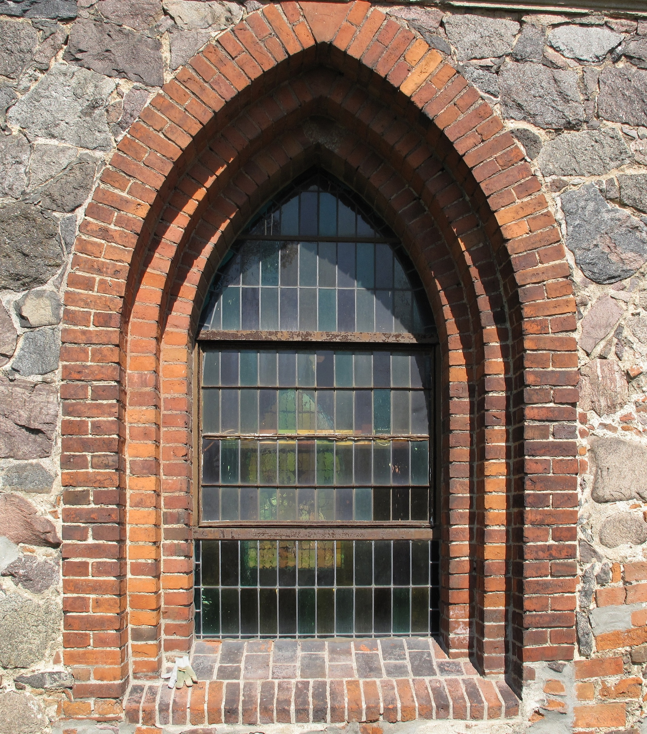 Listed village and Fieldstone church in Bollersdorf, a village of the municipality Oberbarnim in the District Märkisch-Oderland, Brandenburg, Germany.